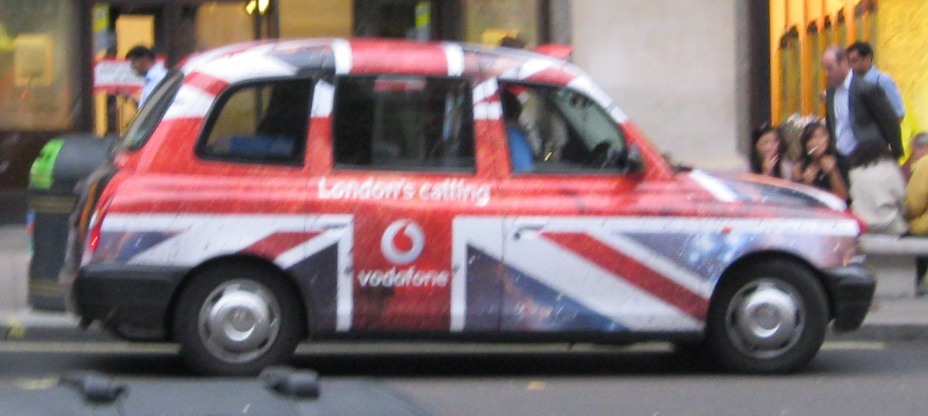 LTI Vodafone photographed in London, England, UK.